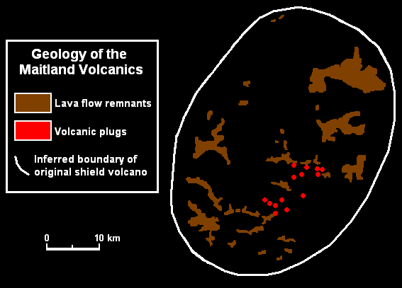 Diagram of the Maitland Volcanics in British Columbia, Canada